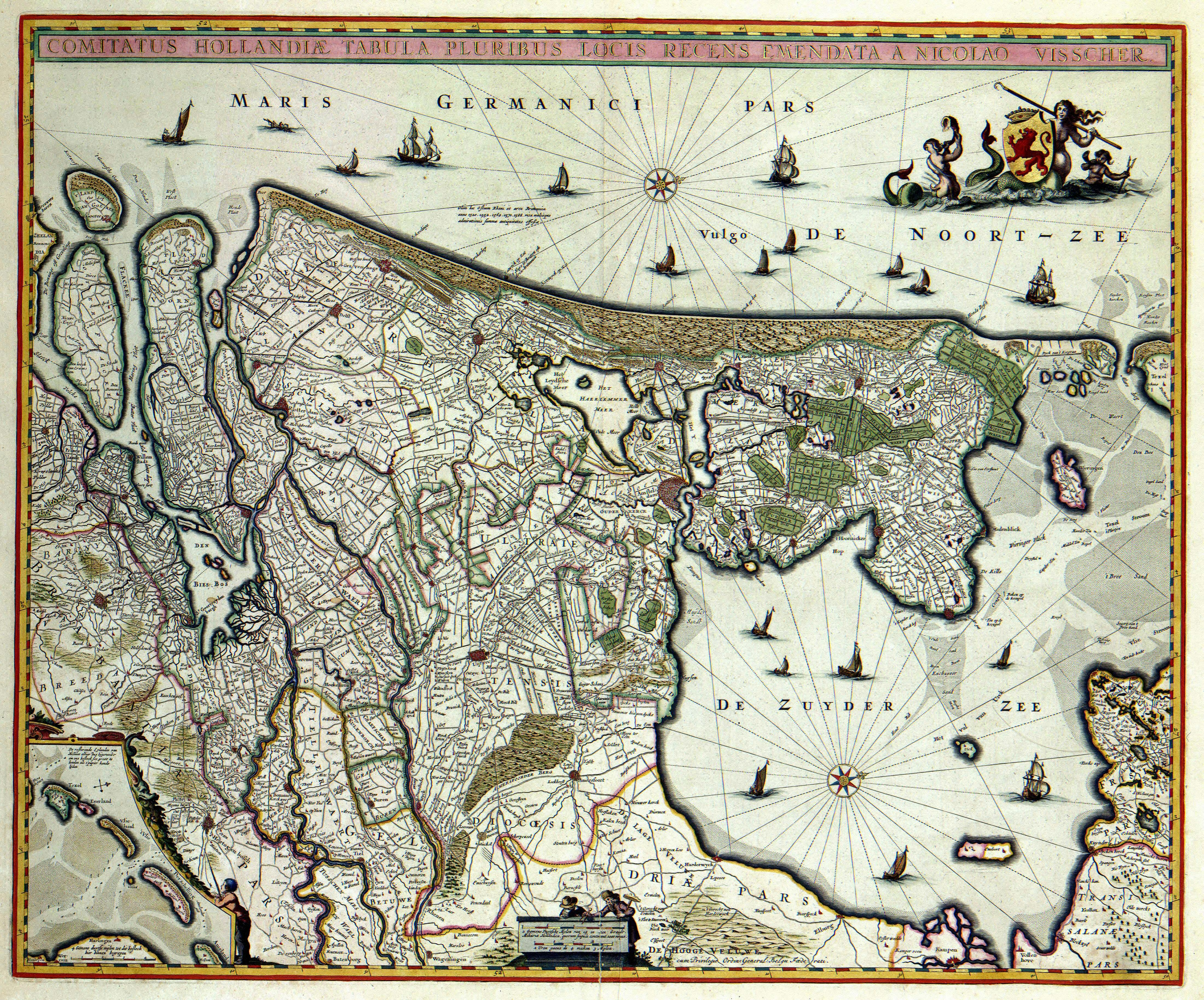 COMITATUS HOLLANDIAE TABULA PLURIBUS LOCIS RECENS EMENDATA A NICOLAO VISSCHER (historic map of Holland)